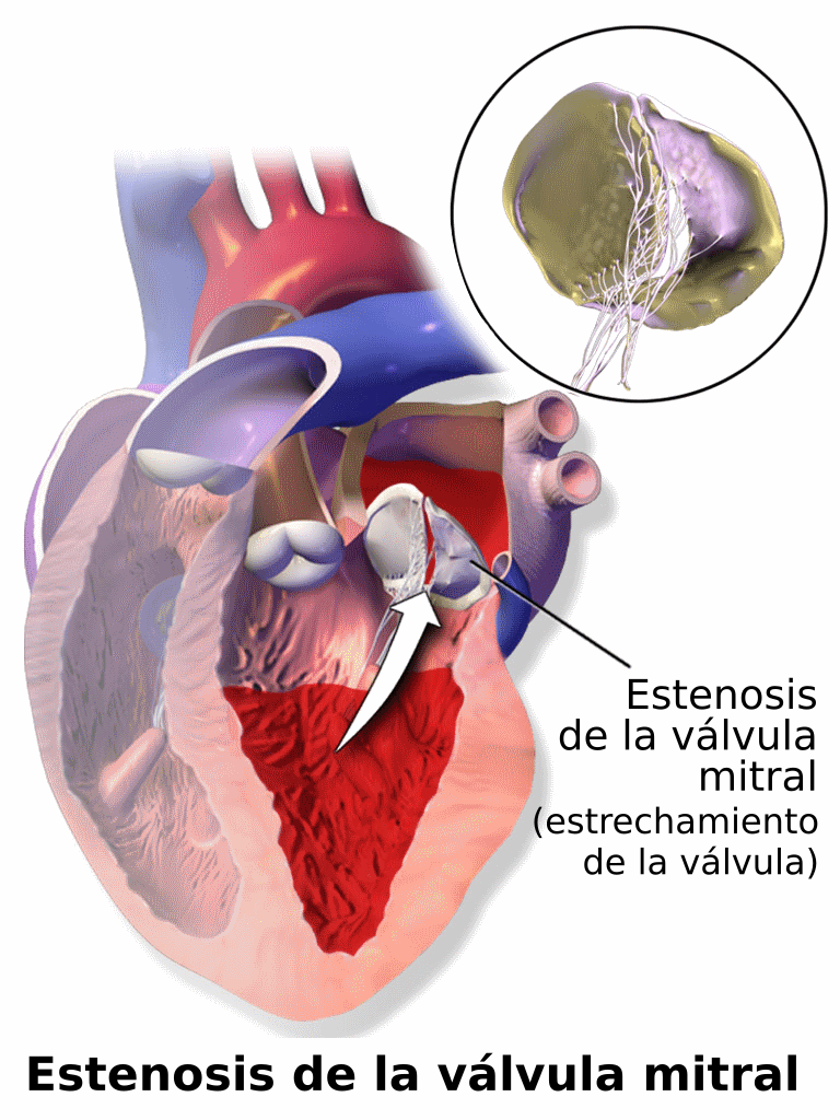 Mitral Valve Stenosis. See a related animation of this medical topic.